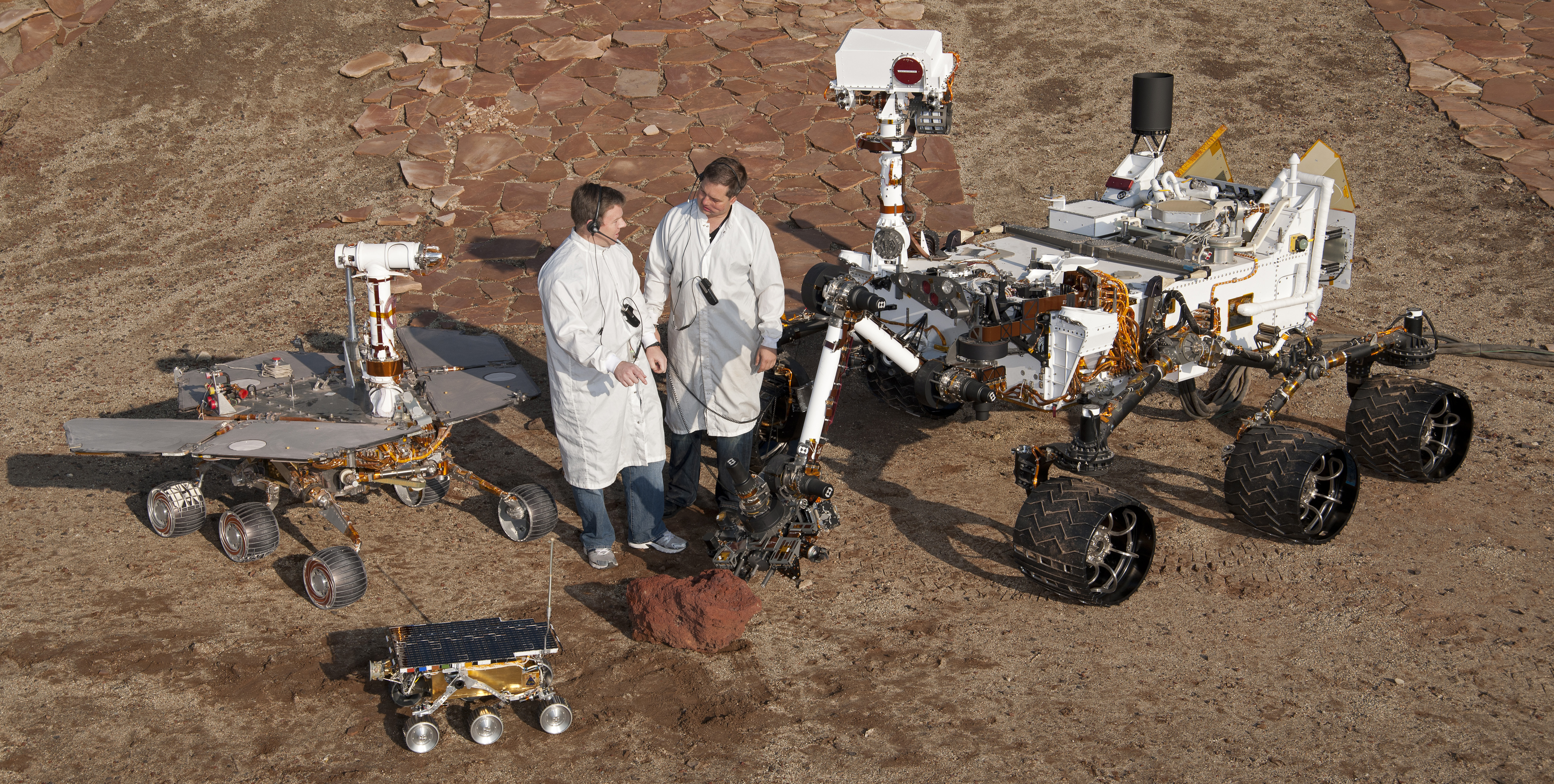 Two spacecraft engineers stand with a group of vehicles providing a comparison of three generations of Mars rovers developed at NASA's Jet Propulsion Laboratory, Pasadena, Calif. The setting is JPL's Mars Yard testing area. Front and center is the flight spare for the first Mars rover, Sojourner, which landed on Mars in 1997 as part of the Mars Pathfinder Project. On the left is a Mars Exploration Rover Project test rover that is a working sibling to Spirit and Opportunity, which landed on Mars in 2004. On the right is a Mars Science Laboratory test rover the size of that project's Mars rover, Curiosity, which landed on Mars in 2012. Sojourner and its flight spare, named Marie Curie, are 2 feet (65 centimeters) long. The Mars Exploration Rover Project's rover, including the "Surface System Test Bed" rover in this photo, are 5.2 feet (1.6 meters) long. The Mars Science Laboratory Project's Curiosity rover and "Vehicle System Test Bed" rover, on the right, are 10 feet (3 meters) long. The engineers are JPL's Matt Robinson, left, and Wesley Kuykendall. The California Institute of Technology, in Pasadena, operates JPL for NASA.